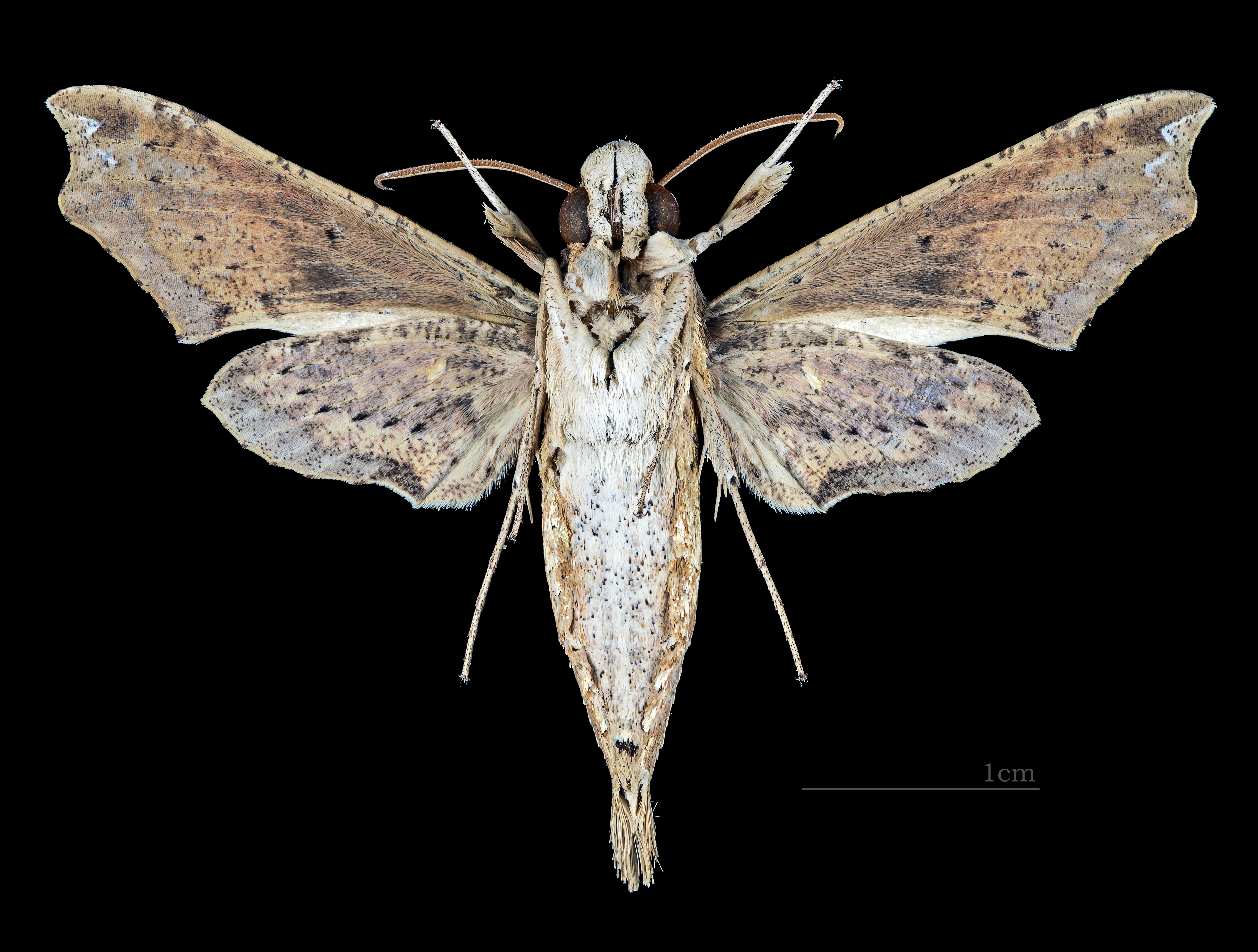 Eupanacra malayana - △ Ventral side Collection of the Mathematician Laurent Schwartz